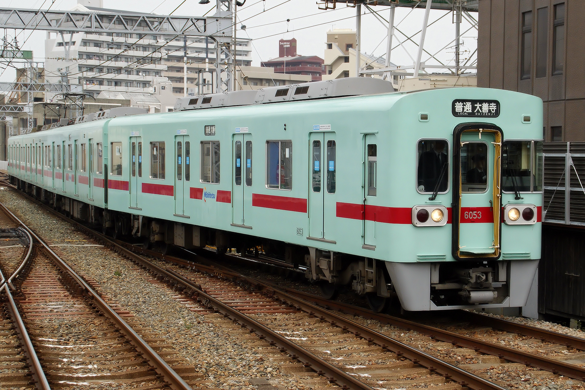 Nishi-Nippon Railroad, Series 6050. Taken at Nishitetu-Kurume Station(Kurume City, Fukuoka Prefecture, Japan)